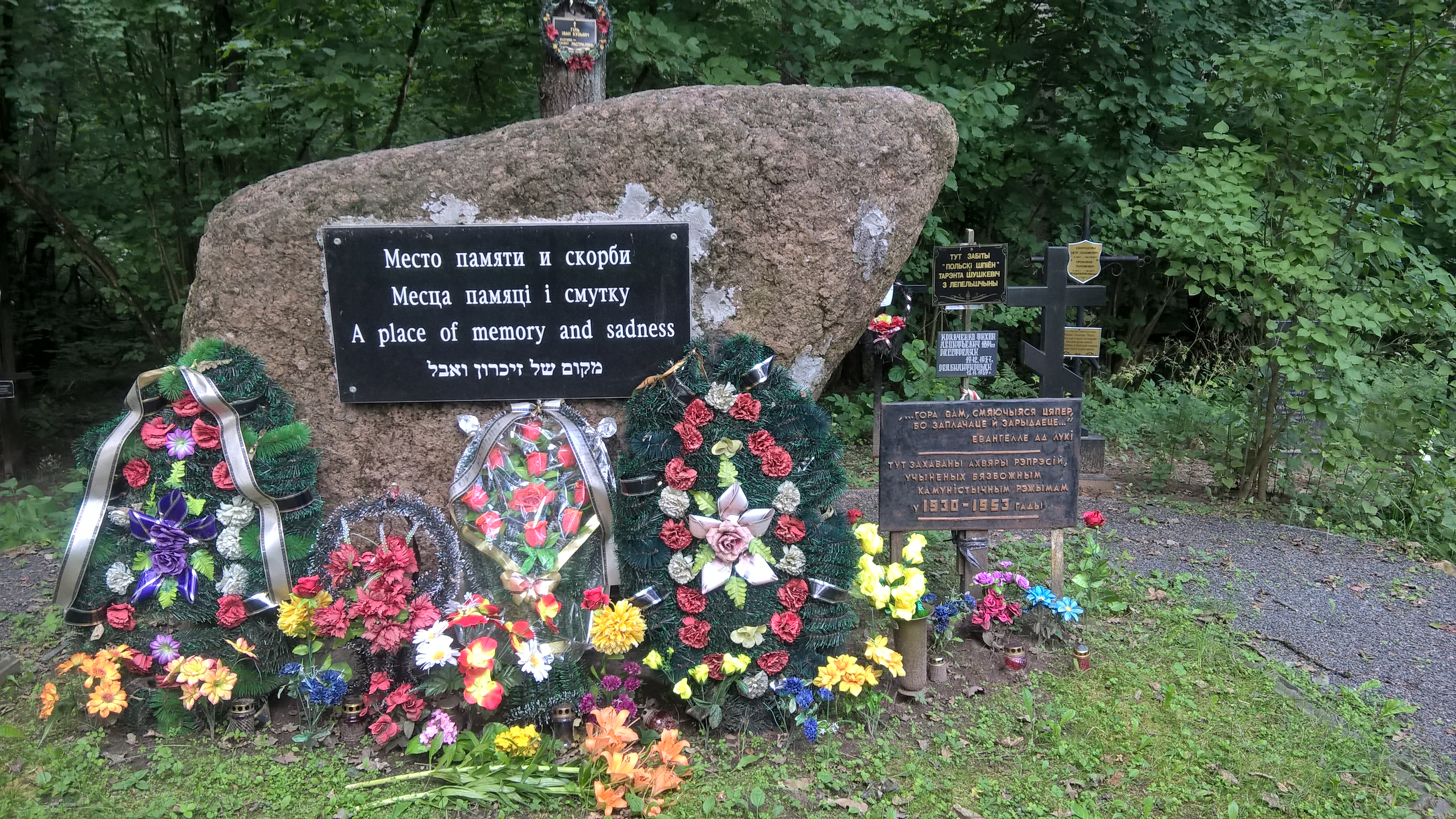 Memory stone in place Kabyliackaja Hara near city Vorša.